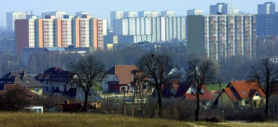 Poznań Piątkowo from Góra Moraska skyline